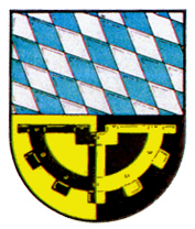 Coat of arms of Nanzdiezweiler (Nanzdietschweiler) till 1969